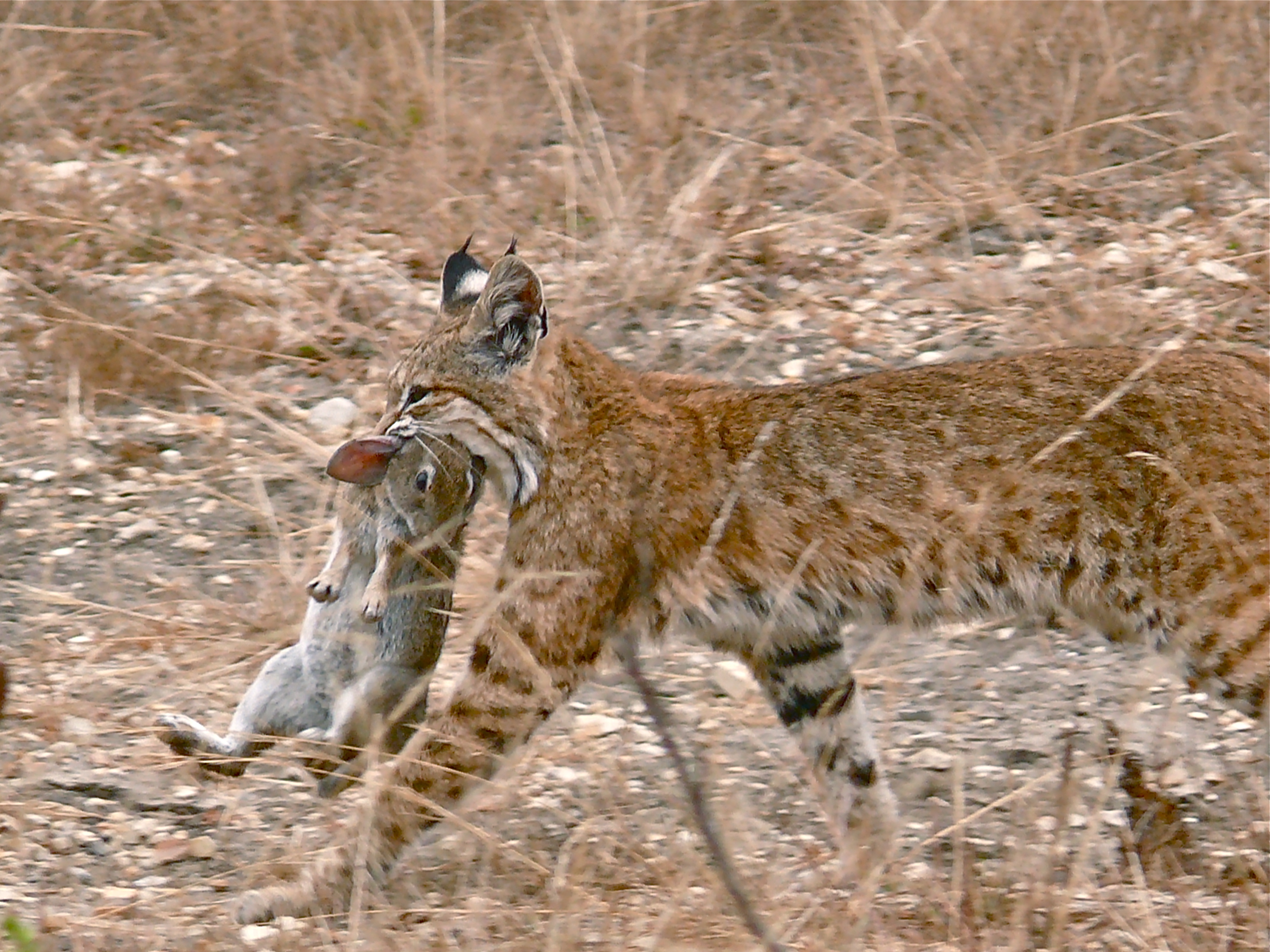 Lynx rufus, Montana de Oro State Park, California. The rabbit species is likely to be Sylvilagus audubonii.